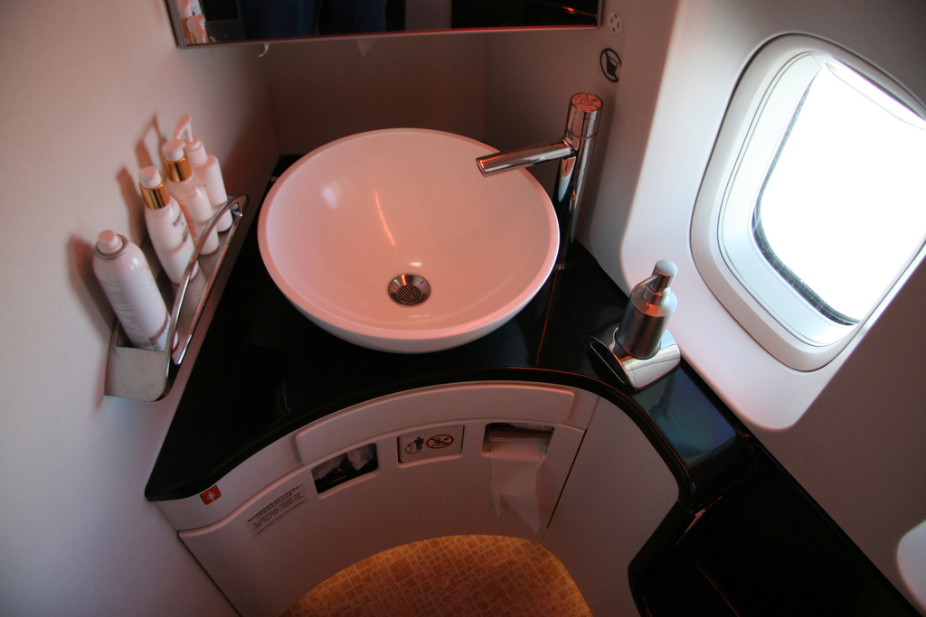 Cathay Pacific First Class